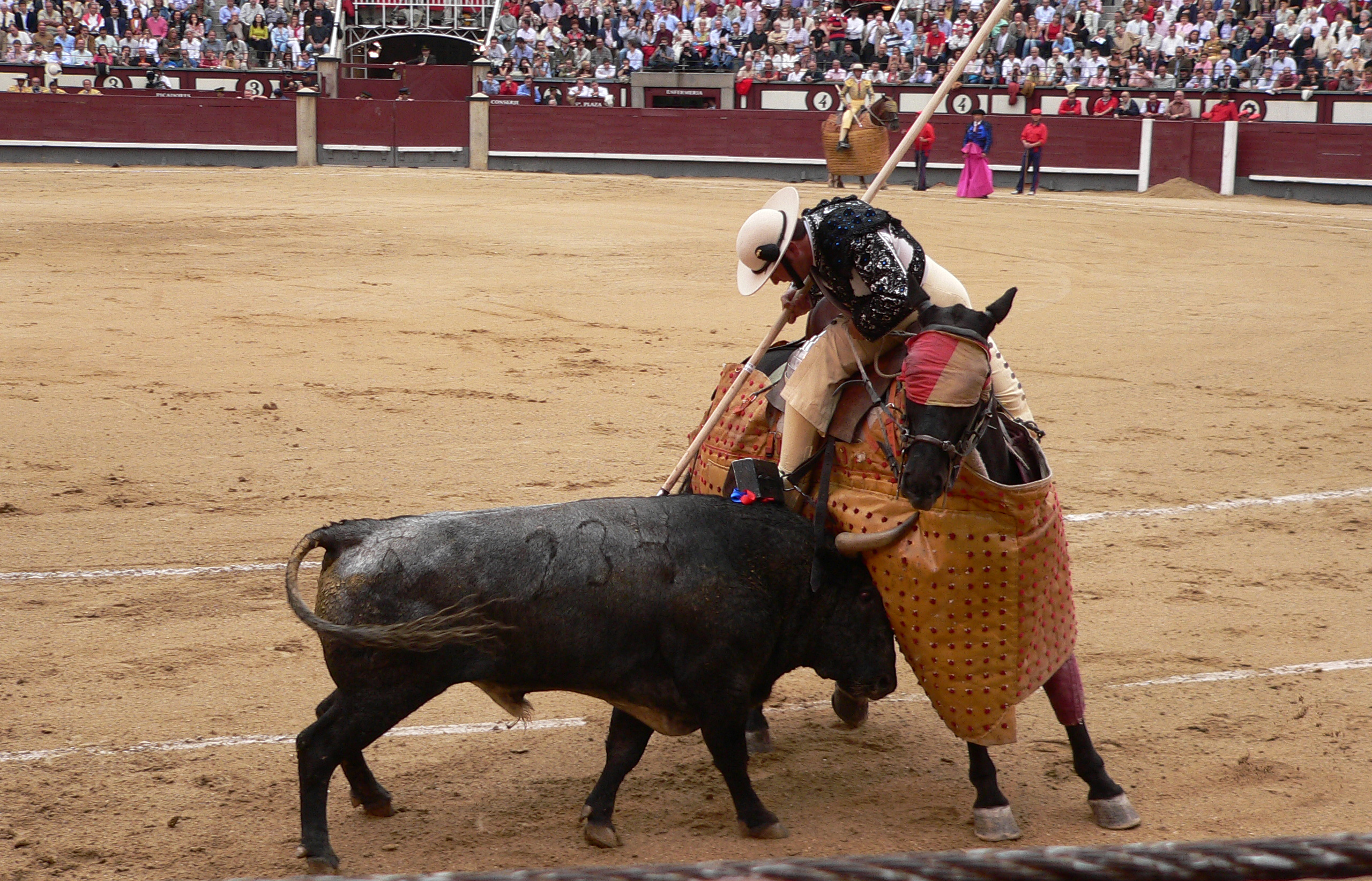 Description: Picador Place : Plaza de Toros Las Ventas City : Madrid Country : Spain Photographer: © Manuel González Olaechea y Franco Shot date : October, 9th , 2005